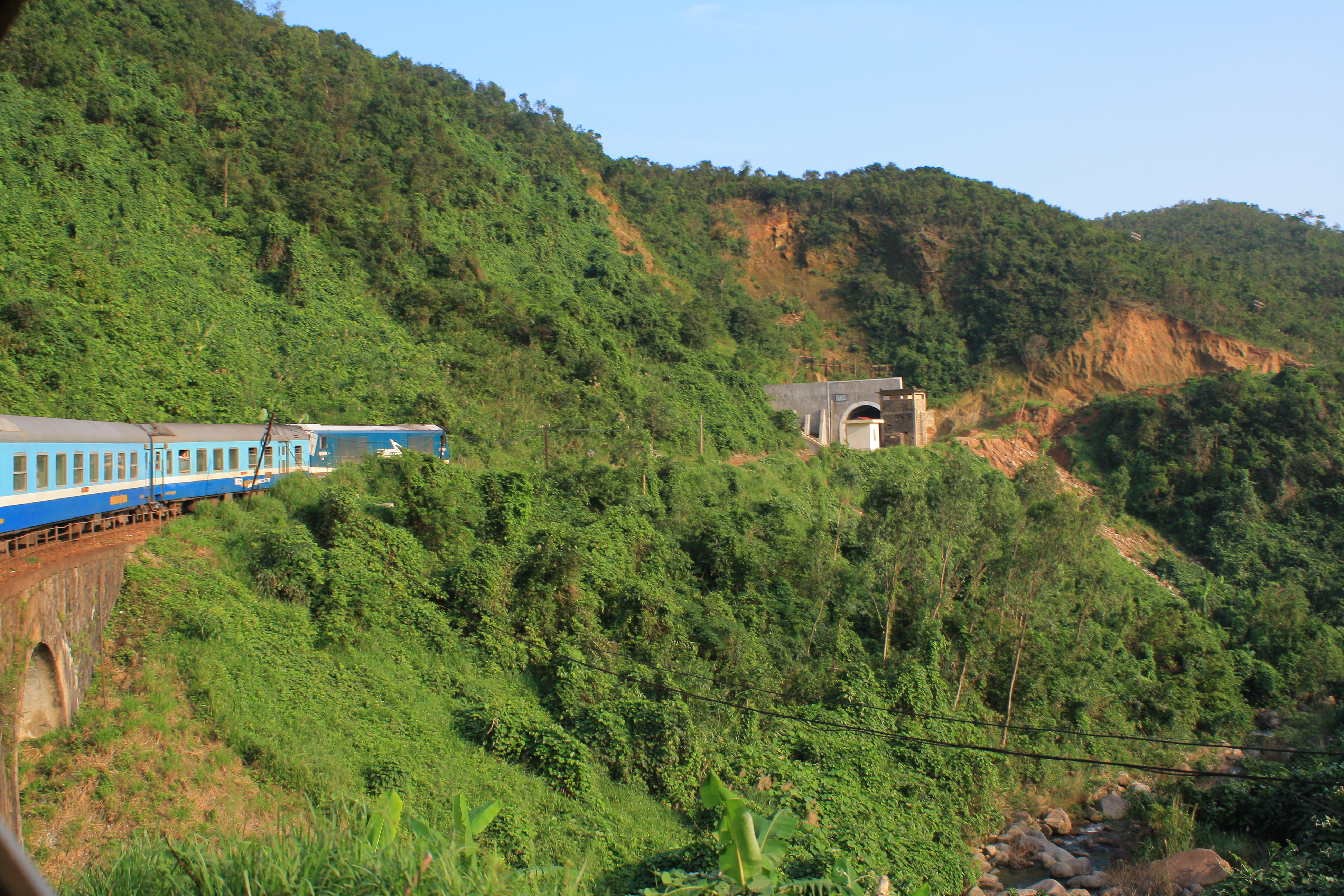 Riding the Reunification express from Hoi An to Hanoi! It was a beautiful trip the whole way!